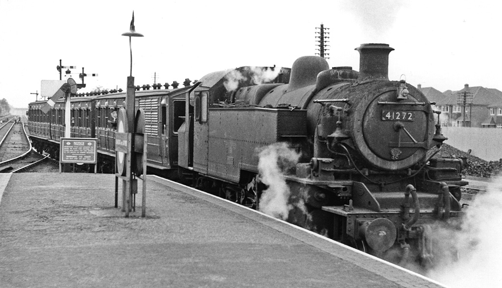 Auto-train for Chesham leaving Chalfont & Latimer Station. View westward, towards Amersham and Aylesbury on the ex-Metropolitan & Great Central Joint line from London (Baker Street and Marylebone) to Aylesbury and beyond, from which the branch to Chesham turns off to the right after a mile or so. The train is made up of old Metropolitan coaches and propelled by LMS-type Ivatt 2MT 2-6-2T No. 41272.